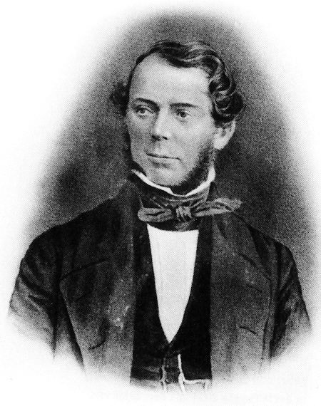 Portrait of the captain and entrepreneur Johann Wilhelm Wendt (1802–1847) from Bremen, Germany.